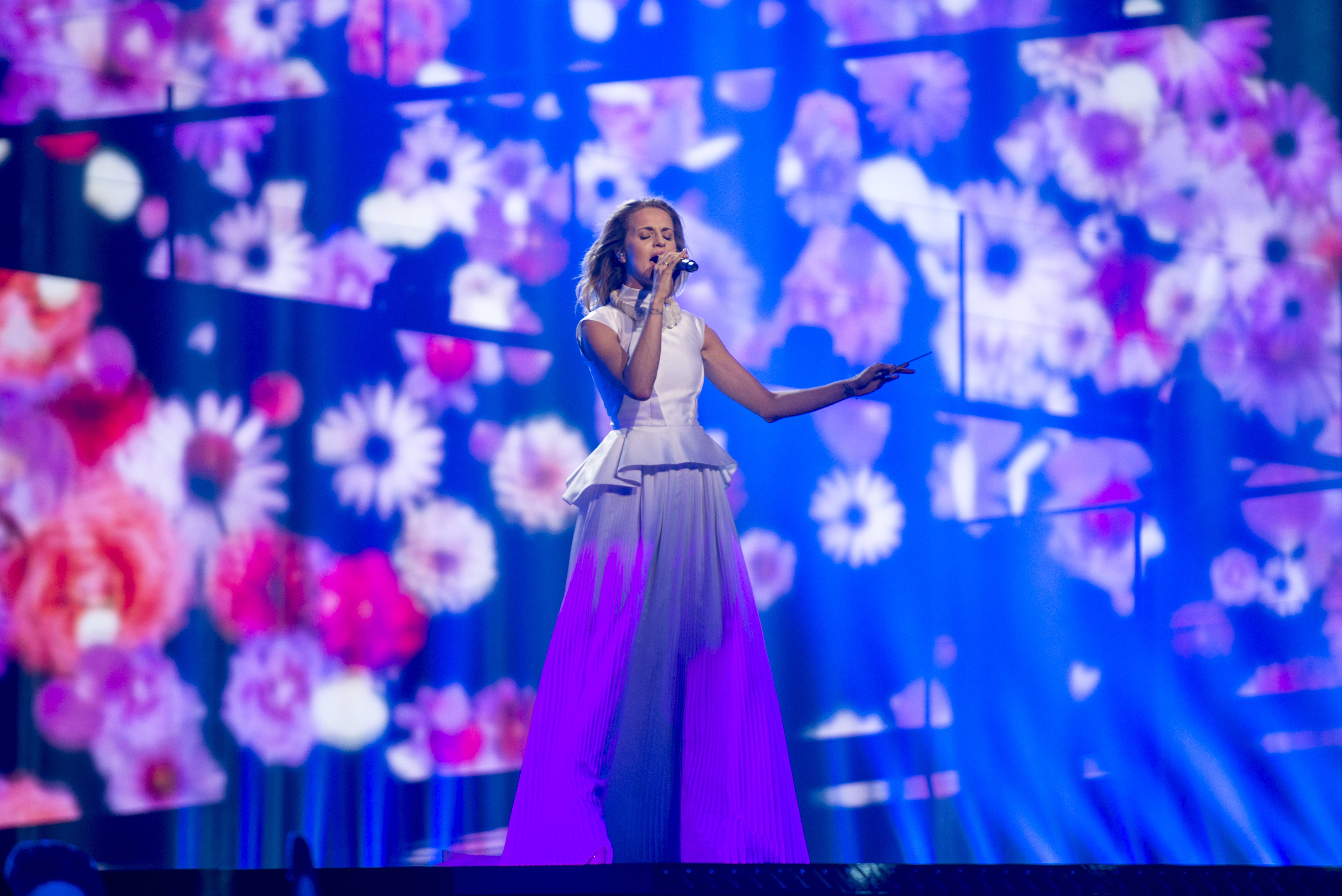 Gabriela Gunčíková representing Czech Republic with the song "I Stand" during a rehearsal before the first semi final of the Eurovision Song Contest 2016 in Stockholm. (Help translate this text)